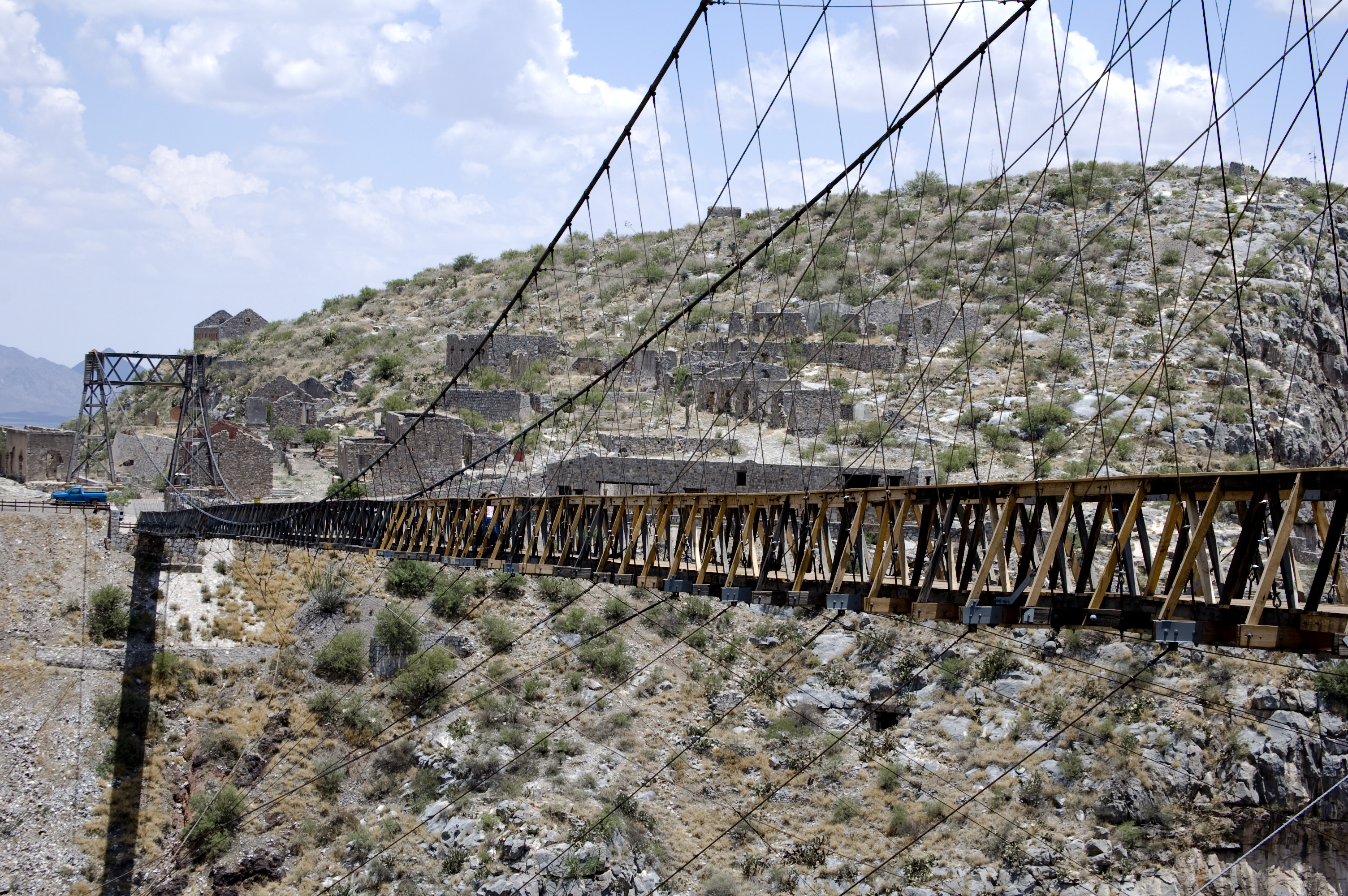 The Ojuela Bridge or the Mapimí Bridge (puente de Ojuela, Spanish name) is a suspension bridge located in Mapimí, in the Mexican state of Durango, at the site of the Ojuela Goldmine